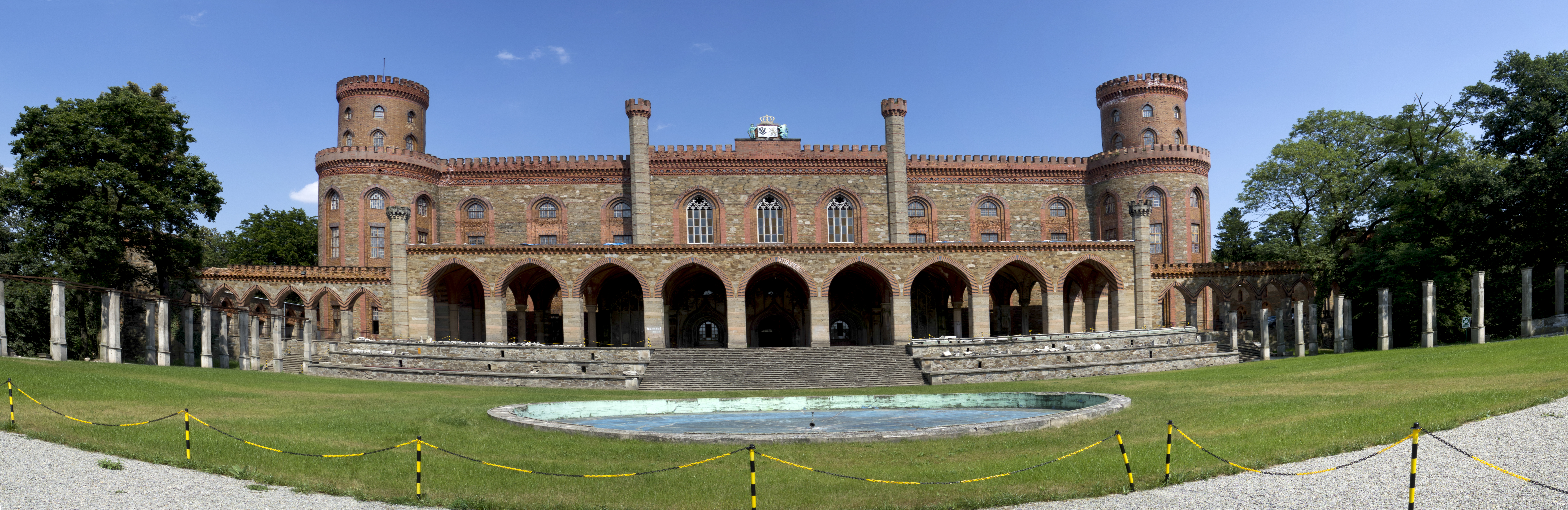 Kamieniec Zabkowicki castle